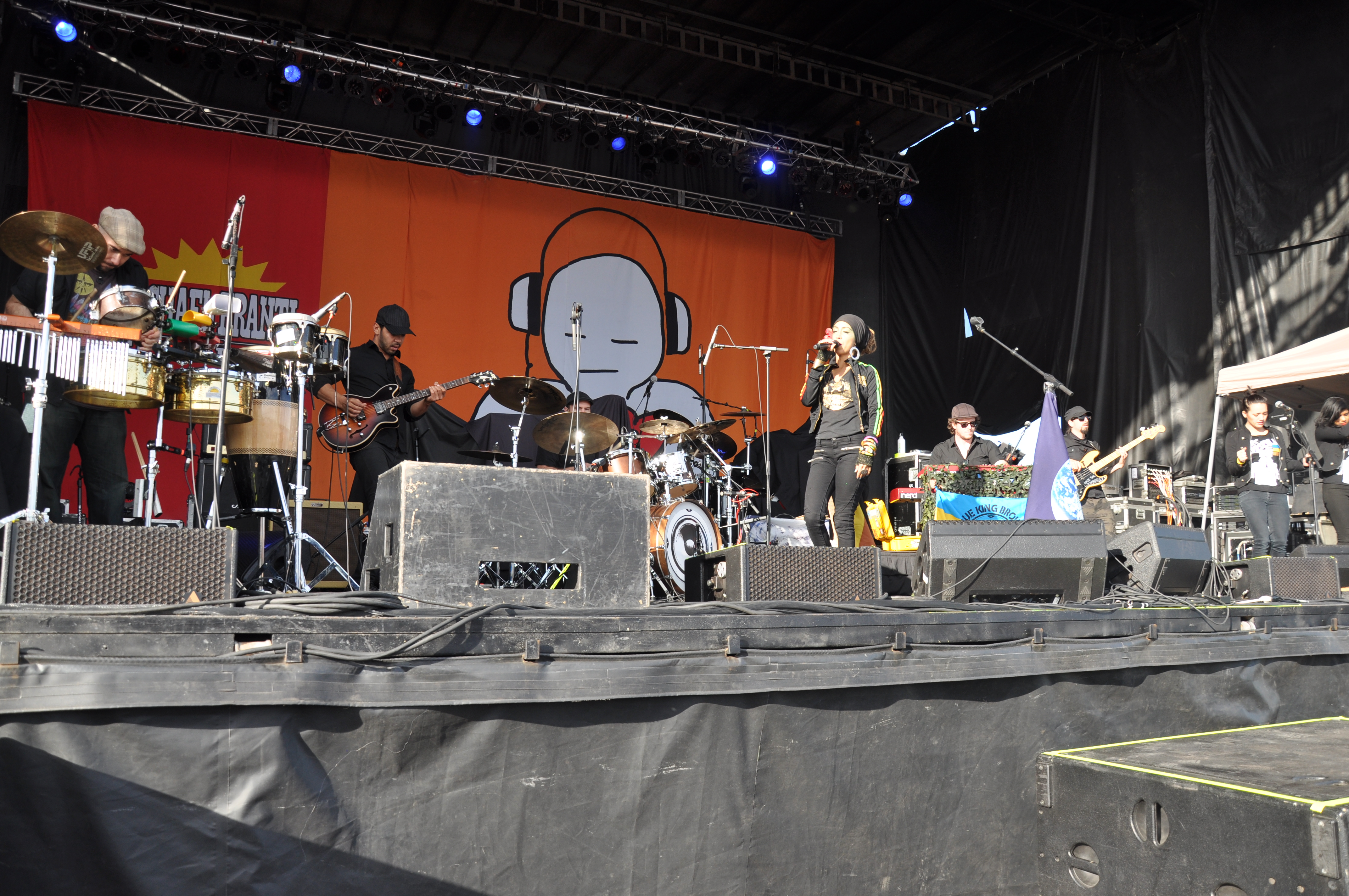 Blue King Brown, a musical ensemble is performing on stage. In Portland, Maine on 18 June 2011